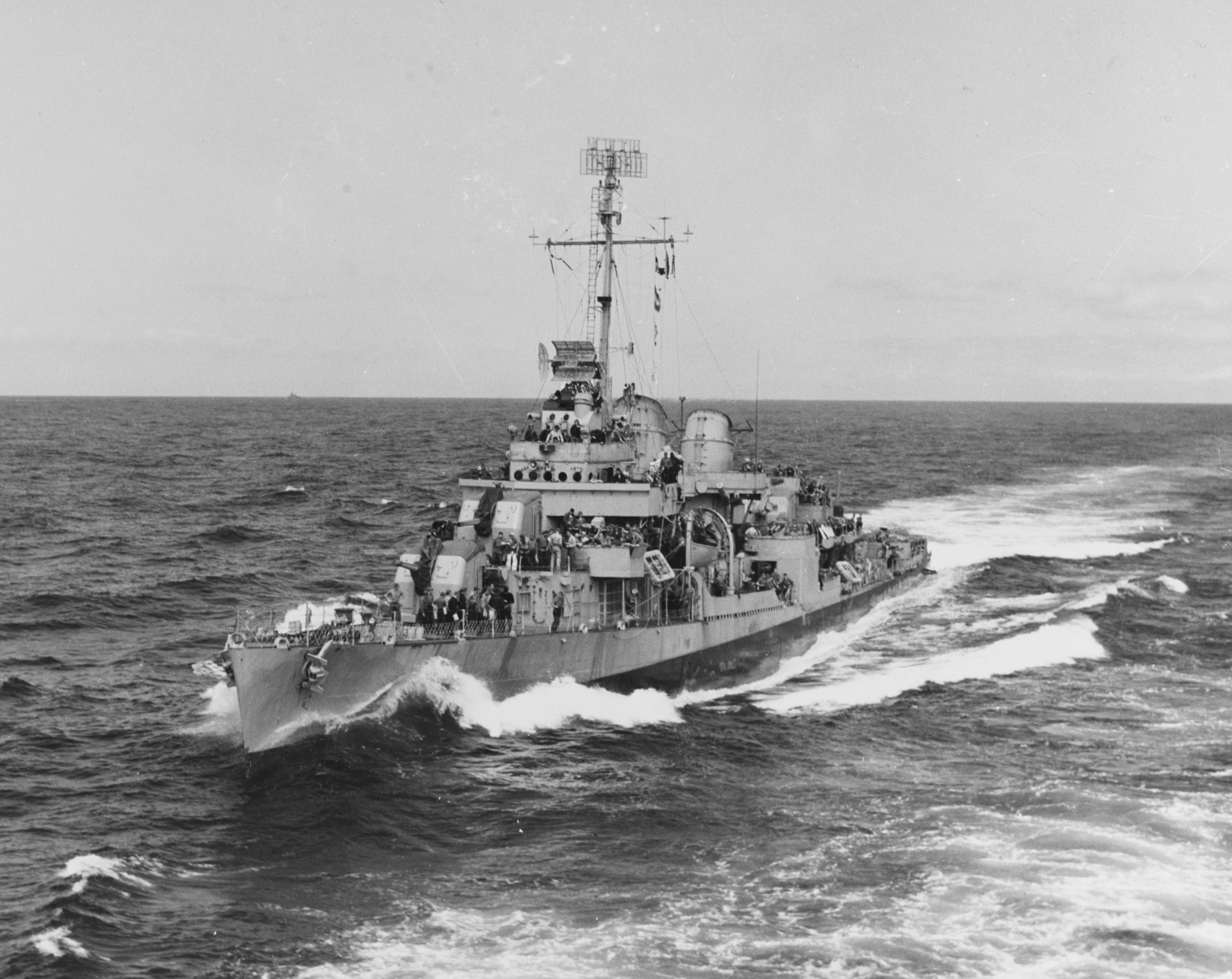 The U.S. Navy destroyer USS Hart (DD-594) underway in the Pacific Ocean on 24 March 1945, during the Okinawa operation.